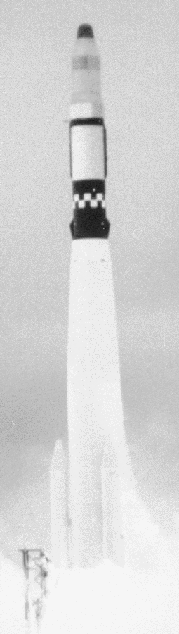 Launch of Thor SLV-2A Agena D rocket with Corona 90 satellite